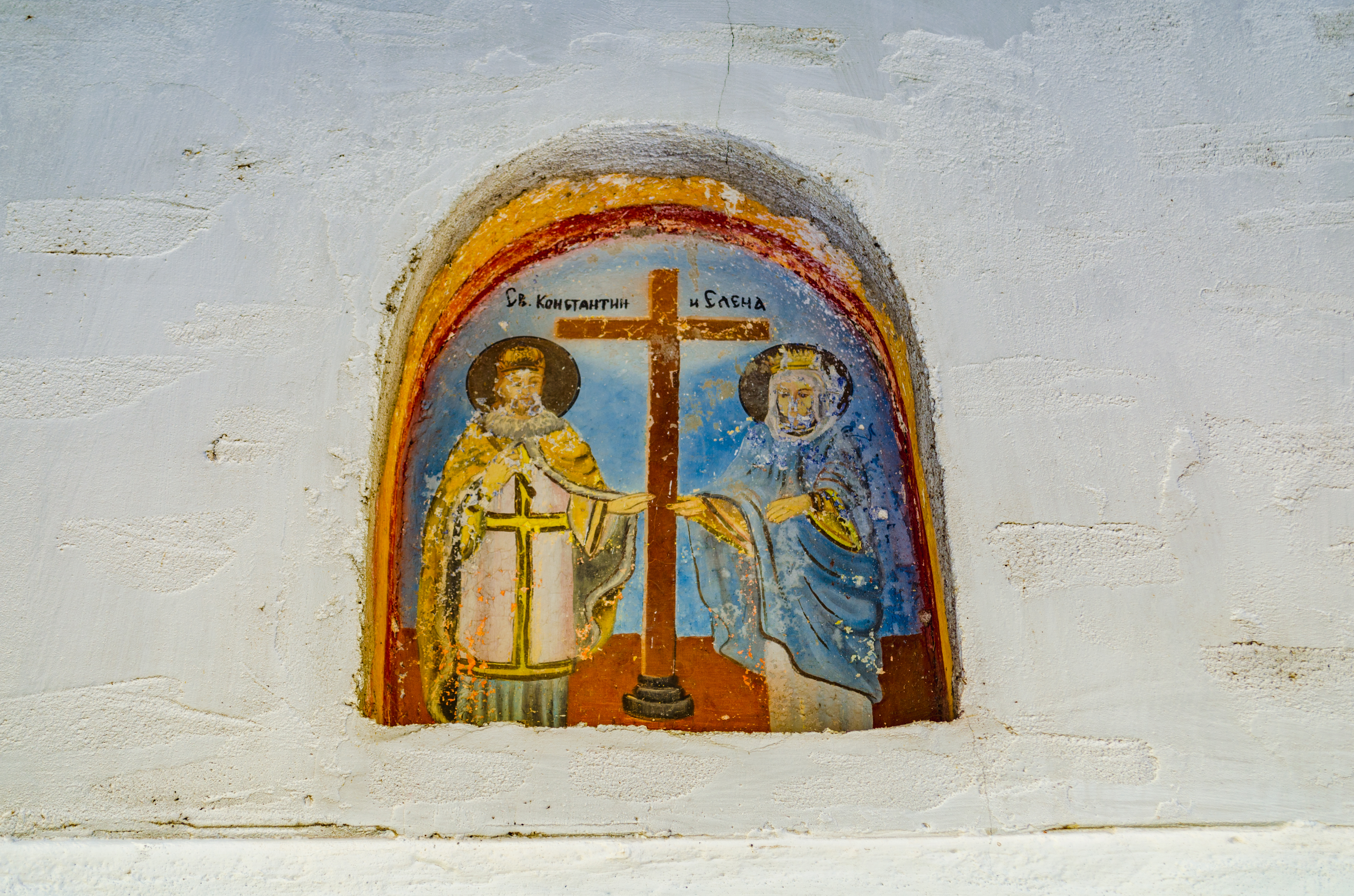 Freso of Sts. Constantine and Helena Church above one of the opening doors of the eponymous church in the village of Miravci, Macedonia